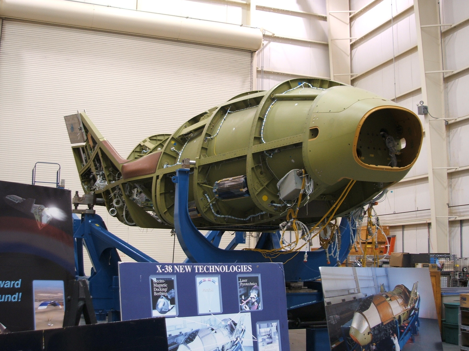 X-38 V-201 test model in Building 220 at Johnson Space Centre in Houston, TX, USA. Picture taken by Slammer111 on 11 February 2005. Slammer111 11:38, 15 November 2006 (UTC) The green color is from the use of Super Koropon primer to protect the aluminum structure from corrosion.TommyImages 09:56, 21 January 2007 (UTC)